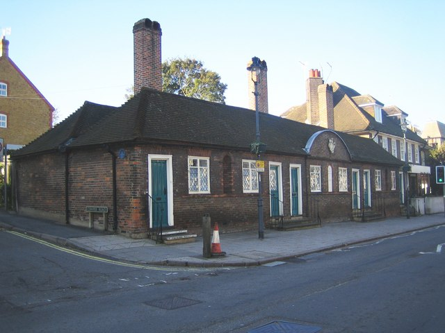 Berkhamsted: Sayer's Almshouses, near to Berkhamsted, Hertfordshire, Great Britain. Situated at the junction of Cowper Road with the High Street, these almshouses were originally built in 1684 to provide accommodation for six poor widows, as the result of a gift of £1,000 left in trust by John Sayer, chief cook to King Charles II. The inscription on the tablet in the centre reads: THE GUIFT OF JOHN SAYER ESQ. 1684.